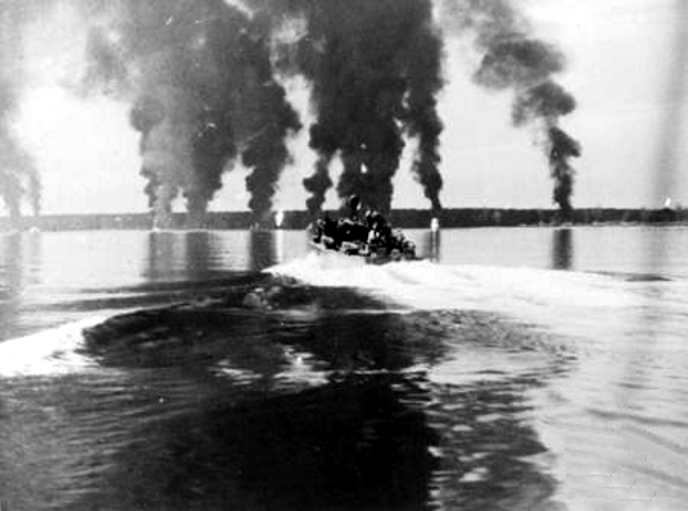 A U.S. Navy PT boat on patrol off Seria, near Brunei Bay, with smoke from ignited oil wells in the background rising to 2,100 m.